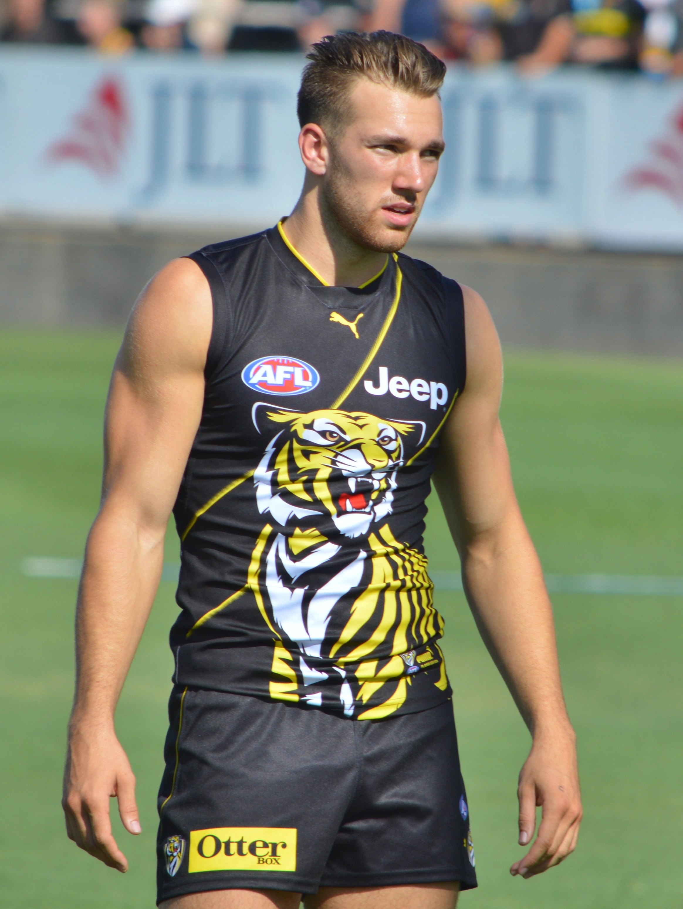 Noah Balta with Richmond during a JLT Community Series match against Melbourne in Shepparton in March 2019